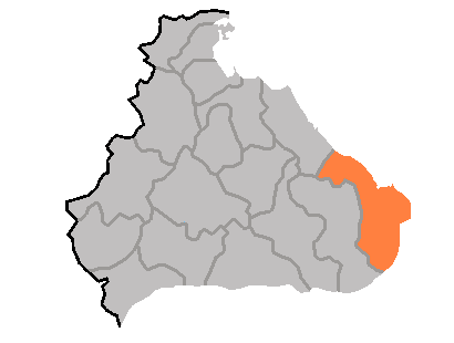 Gosung county map